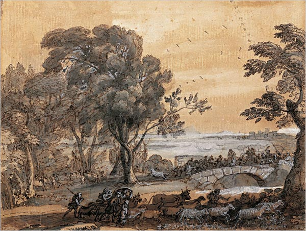 Coastal Landscape with a Battle on a Bridge.